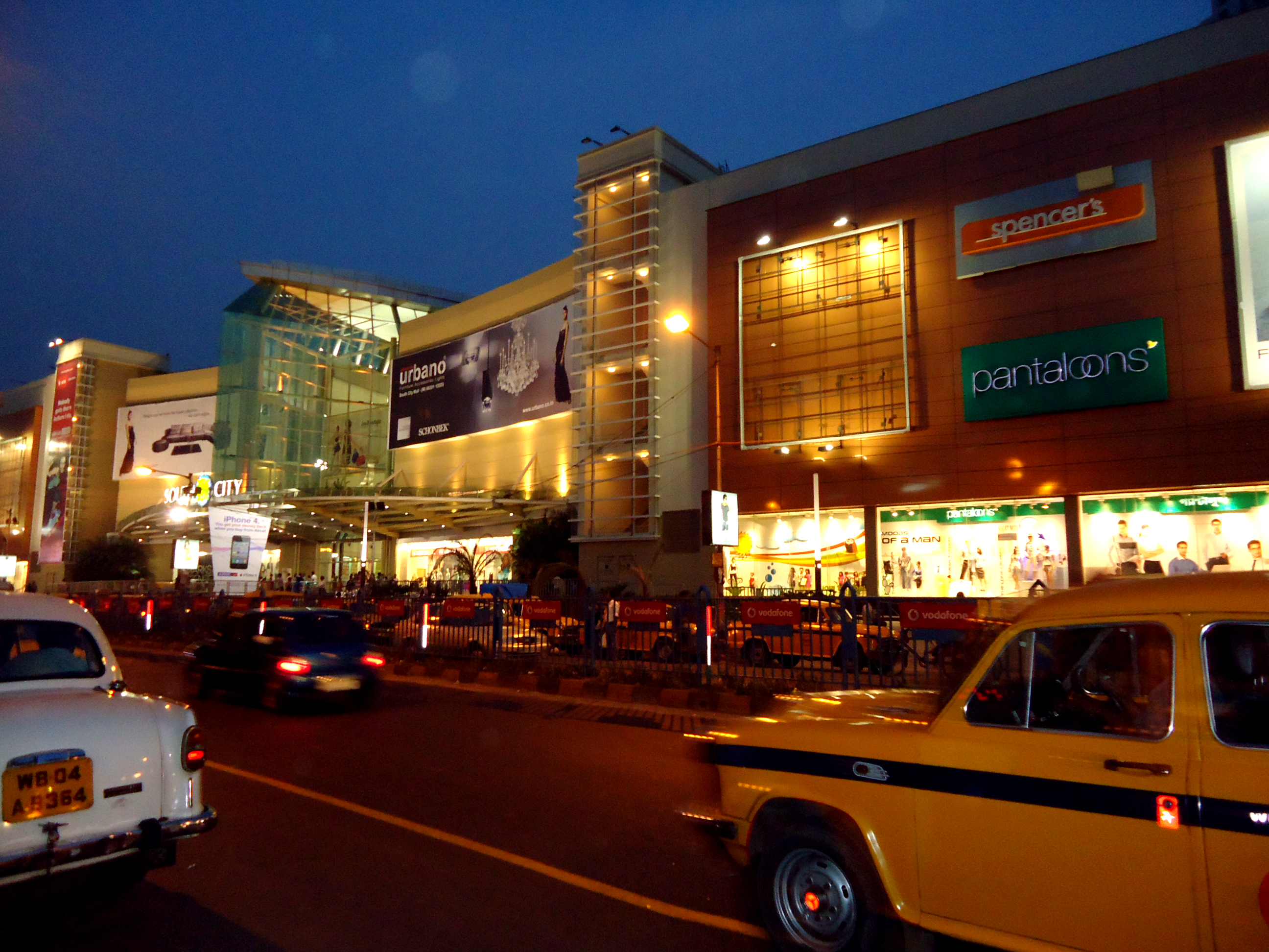 South City Mall, Kolkata, dazzling at night